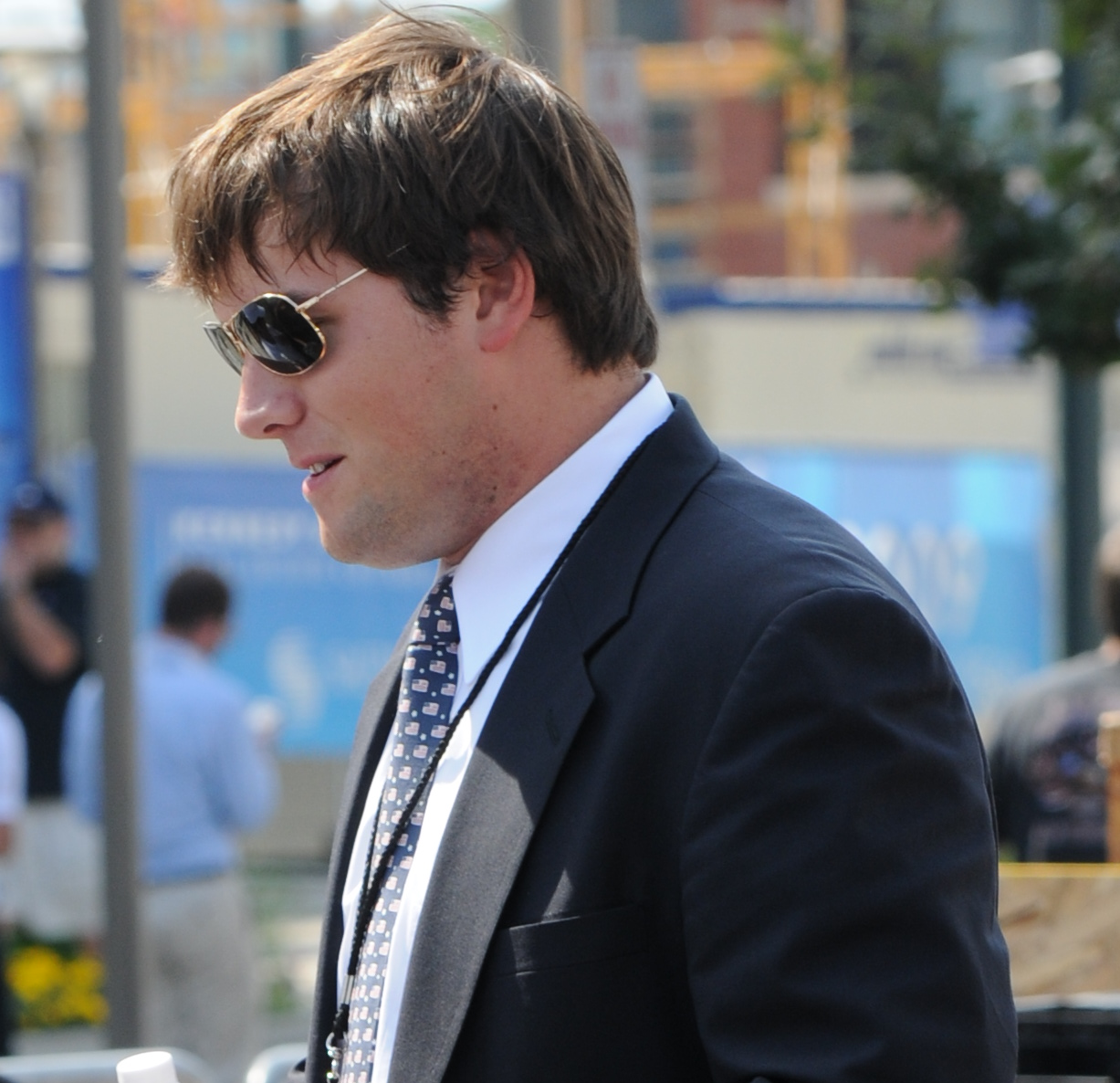 Luke Russert at the Democratic National Convention in Denver, Colorado, 2008.